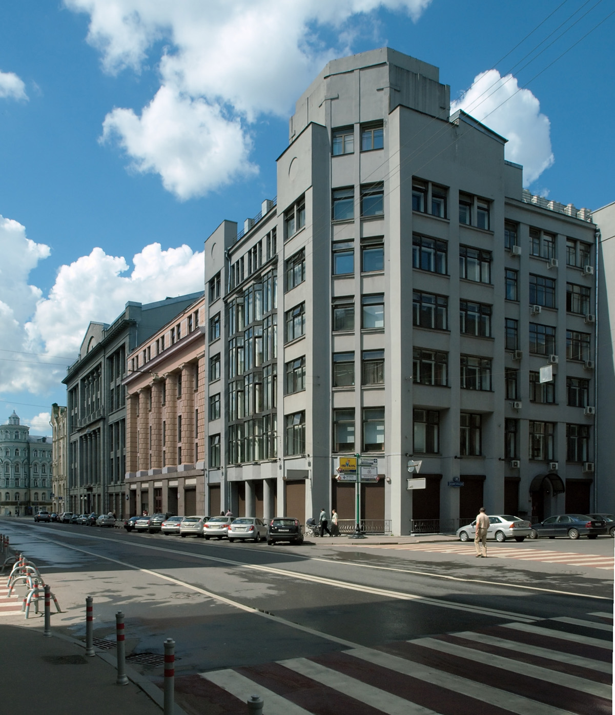 The former Arcos building on Birzhevaya Square, Moscow